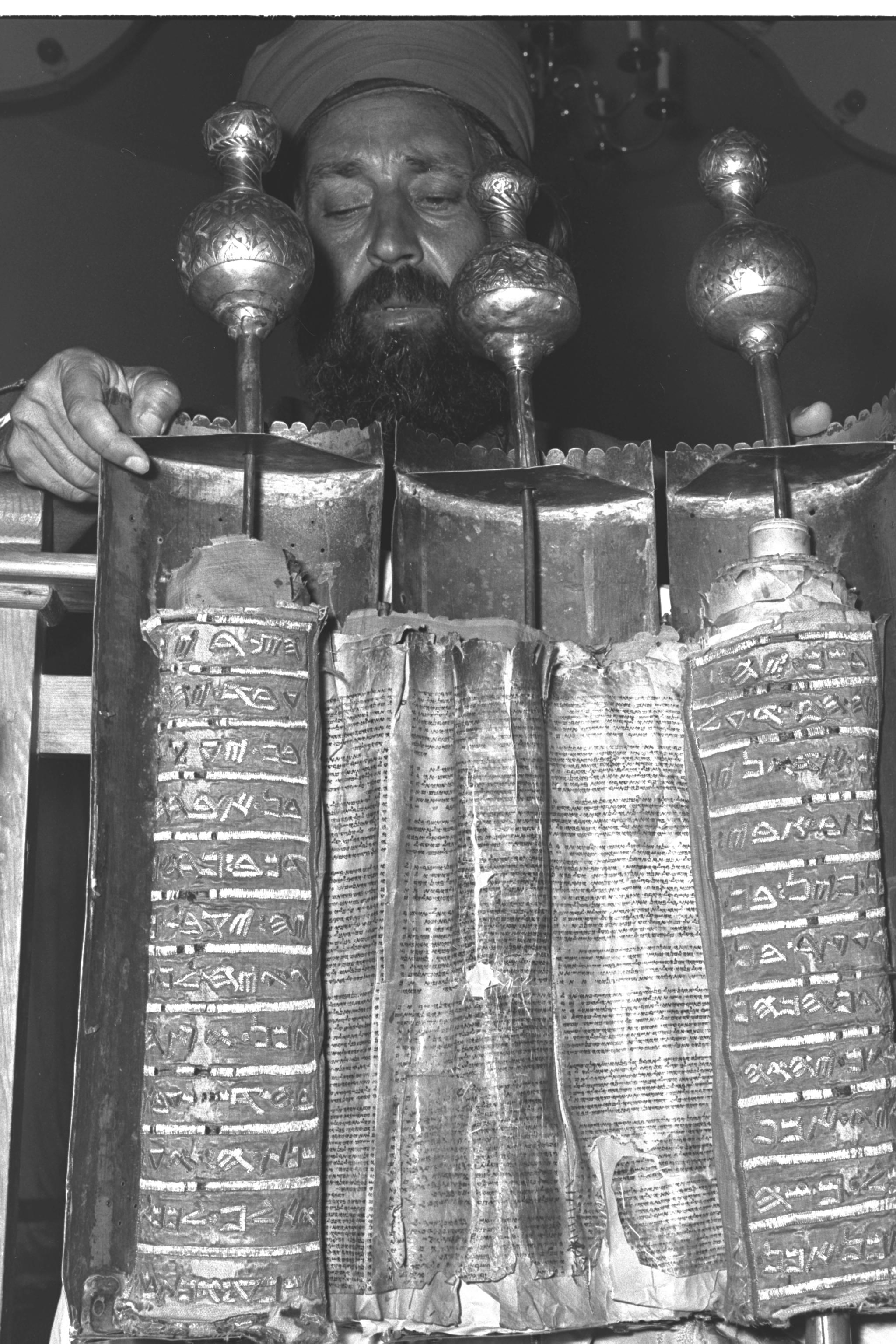 Samaritan priest Zadok Ben-Avisha Hacohen holds a 2000-year-old Torah scroll in the Samaritan synagogue in Nablus.